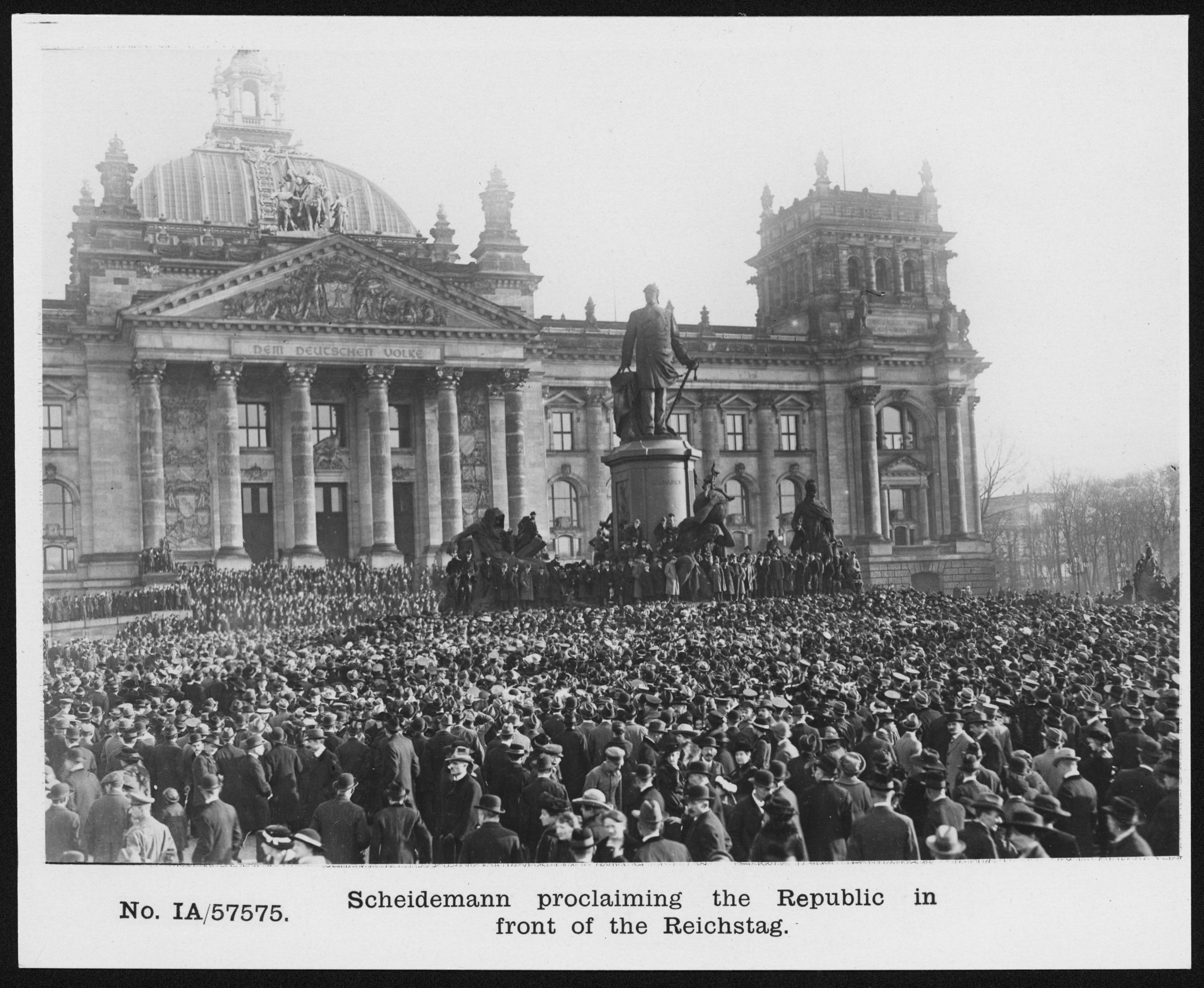 Declaration of the German Republic, 9 November 1918. A crowd gathered outside the Reichstag or German parliament building in Berlin. The crowd is predominantly male with a large percentage of military, but there are some women. According to the original caption they are listening to the declaration of Germany as a republic. Philipp Scheidemann (1865-1939) proclaimed the German Republic on 9 November 1918 and forced the abdication of the Kaiser Wilhelm II (1859-1941). [Original reads: 'No. IA/57575. Scheidemann proclaiming the Republic in front of the Reichstag.']